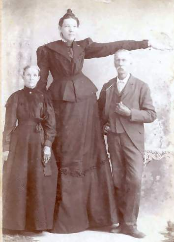 Photo of Ella Ewing and her parents. Miss Ewing was considered the worlds tallest woman of her era. She died in 1913. This image was taken and published before then, and certainly well before 1923, thus is considered in the public domain under U.S. laws. The purpose of its use on Wikipedia is to illustrate the subject of her article and display her extreme height in a manner the average reader can comprehend.